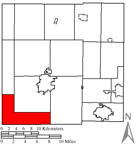 Made by the US Census and modified by myself